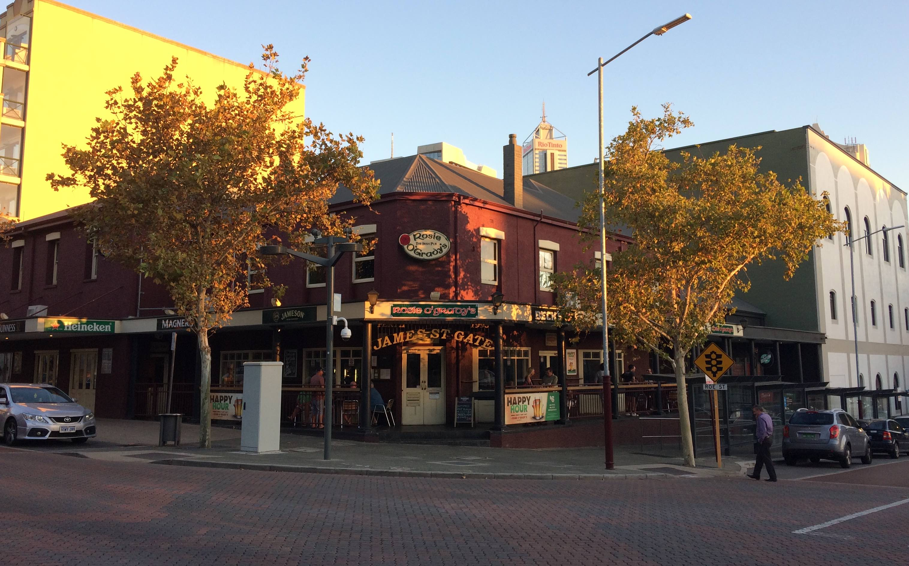 Rosie O'Gradys Northbridge, Perth